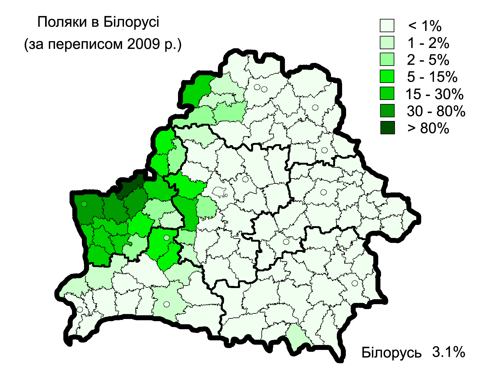 Poles in Belarus according to the 2009 Belarus Census